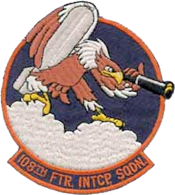 108th Fighter-Interceptor Squadron - Emblem